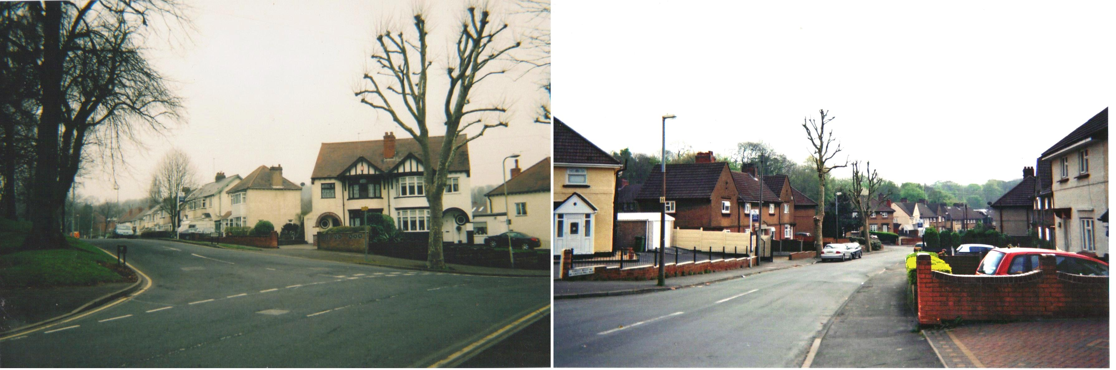 A picture of the Priory estate in Dudley, England in 2010. The bus stop (right) was closed in early 2011.